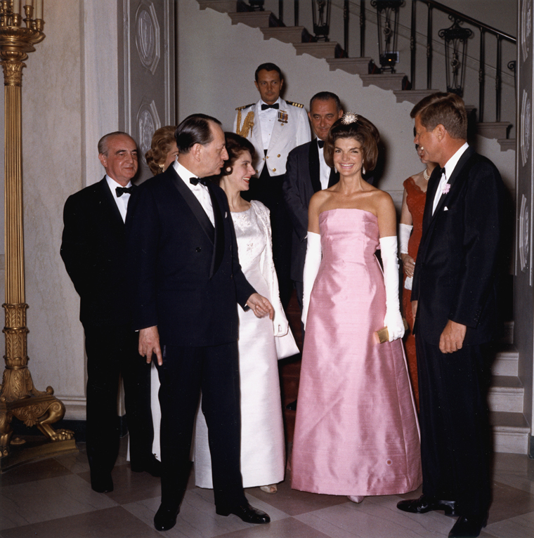 Dinner in honor of the Minister of State for Cultural Affairs of France. Front, L-R: Andre Malraux; Mme. Malraux; Mrs. Kennedy; President Kennedy. Back, L-R: Herve Alphand, Ambassador of France; Mme. Alphand (partially hidden); Commander Tazewell Shepard, Naval Aide; Vice President Johnson; Mrs. Johnson (partially hidden). White House, Grand Staircase